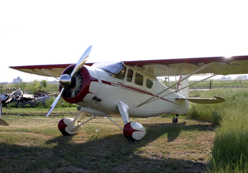 Author: John Kahrs Location: Williams, California May 7th, 2006